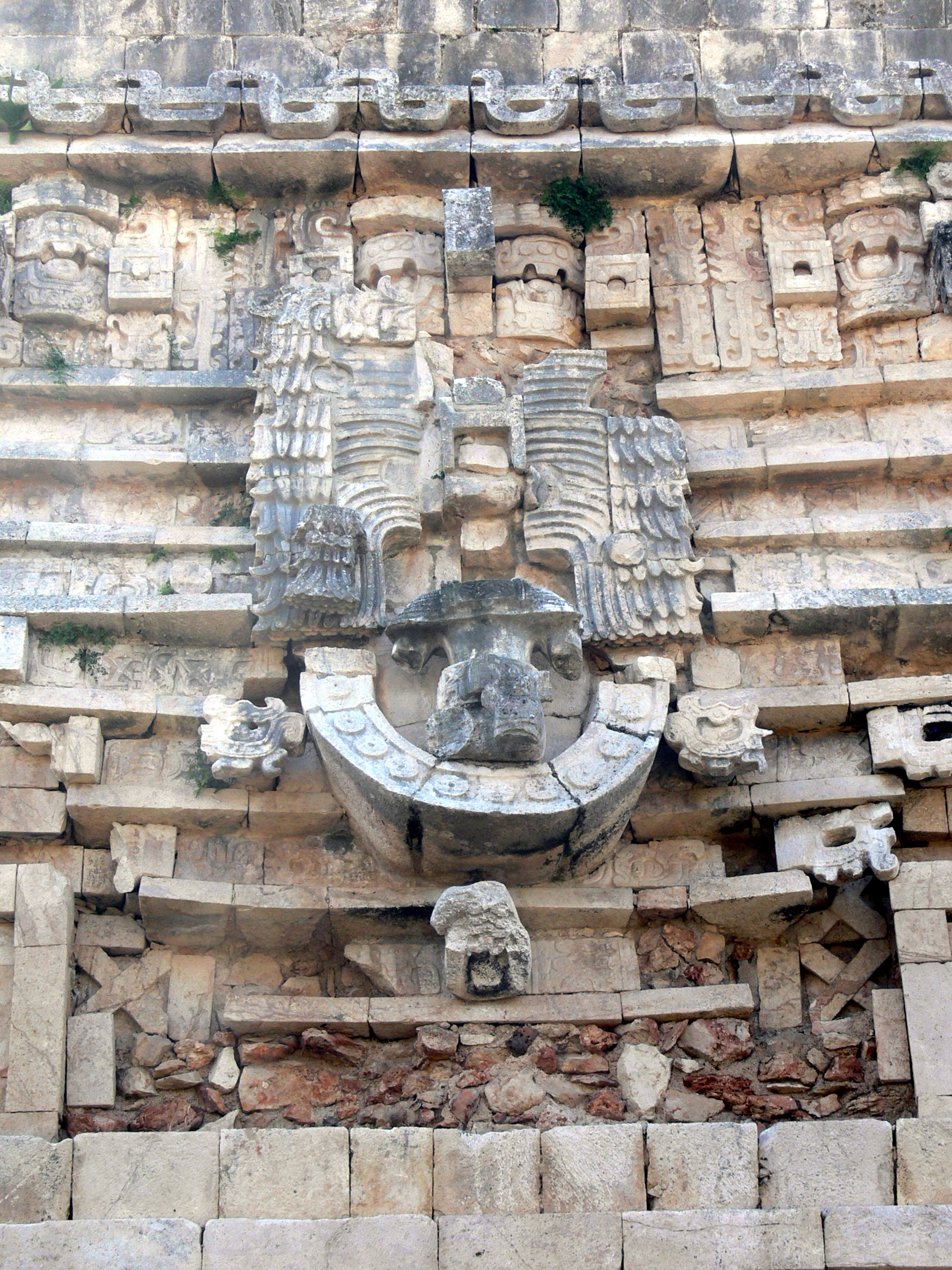 Uxmal ( Yucatan ). Relief of a ruler in the freeze at the west side of the Palace of the Gouvernor.